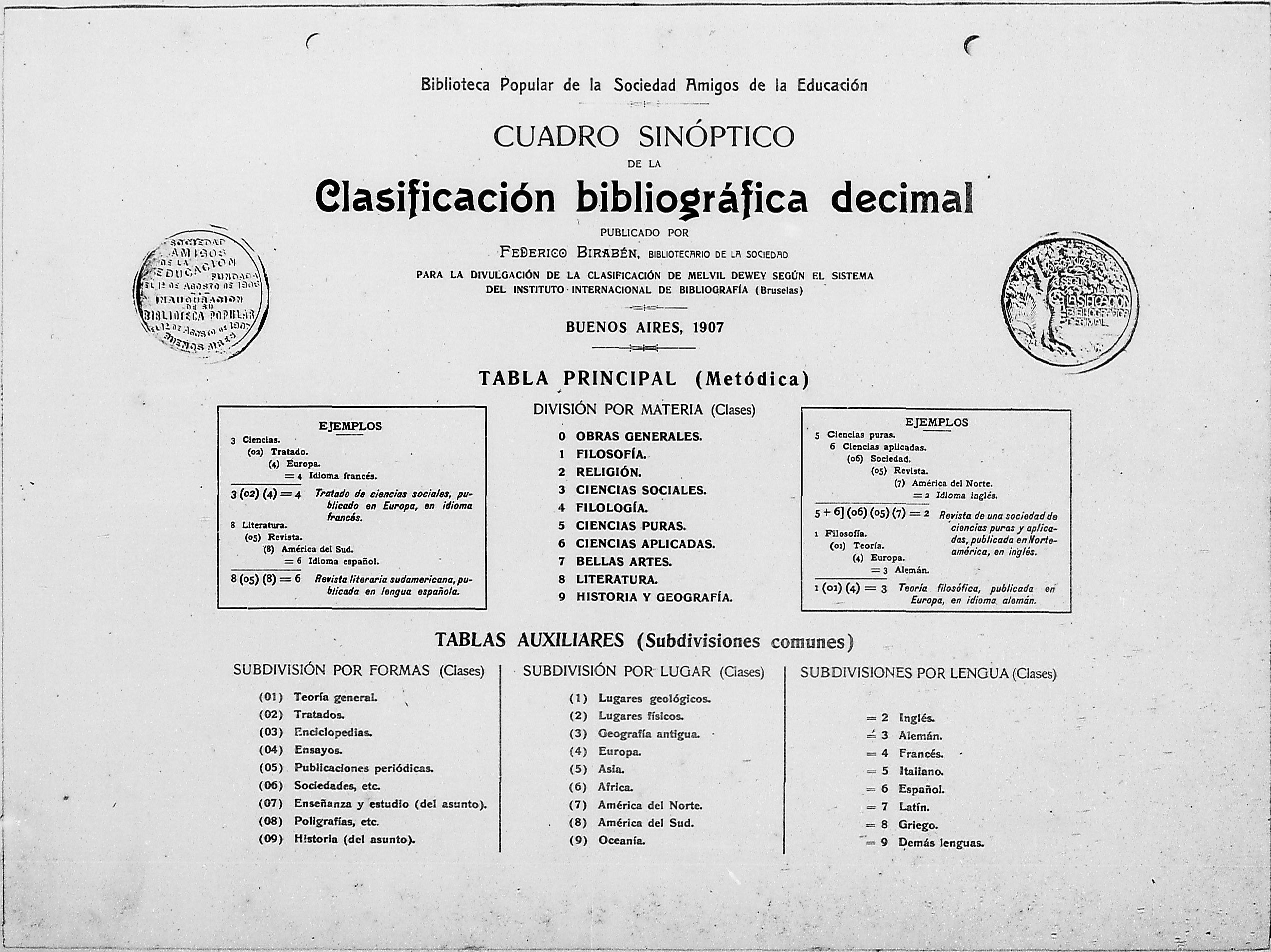 Decimal Classification Sinoptic square